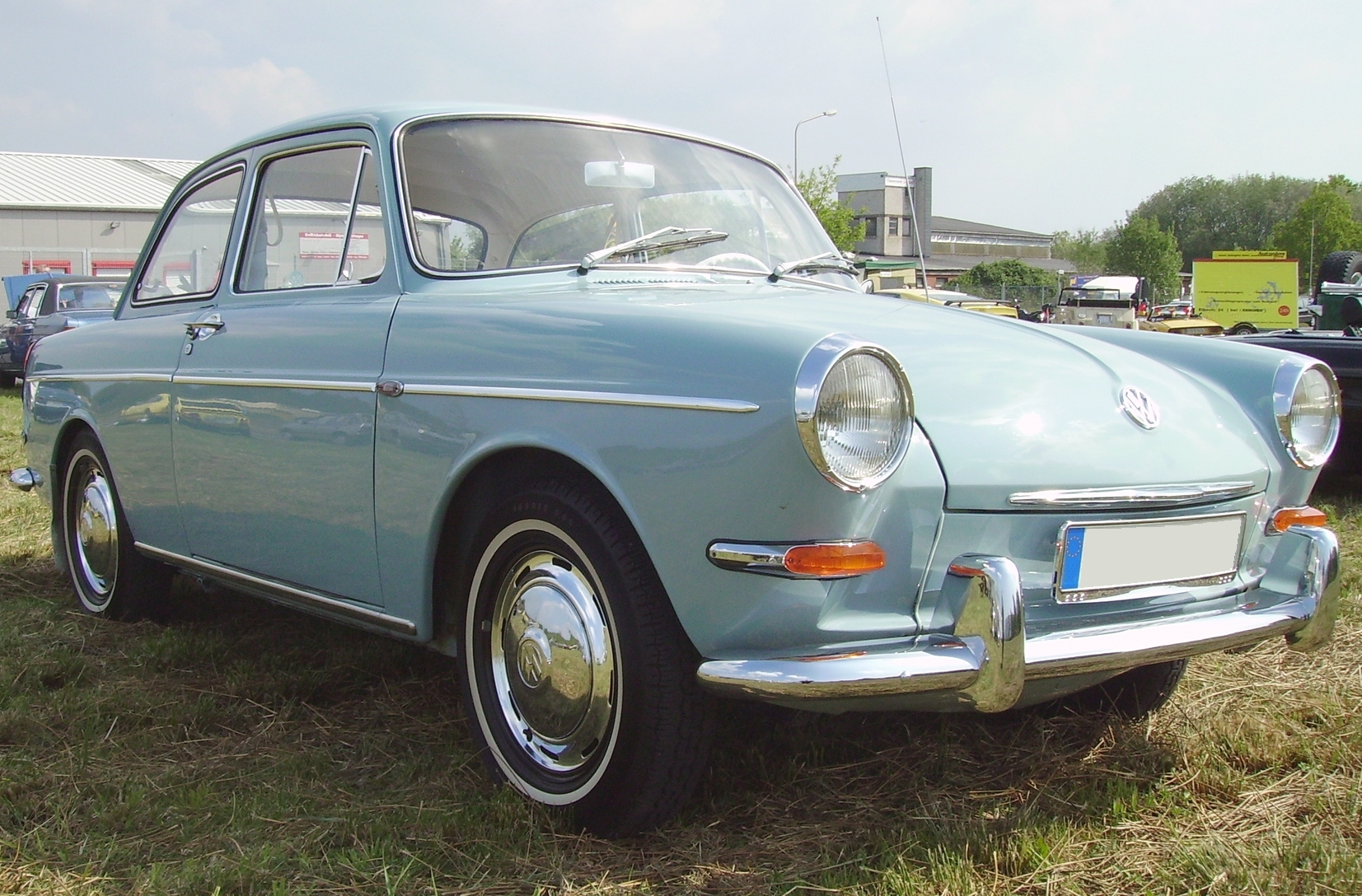 A Volkswagen (VW) 1500 Notchback (Volkswagen Type 3)